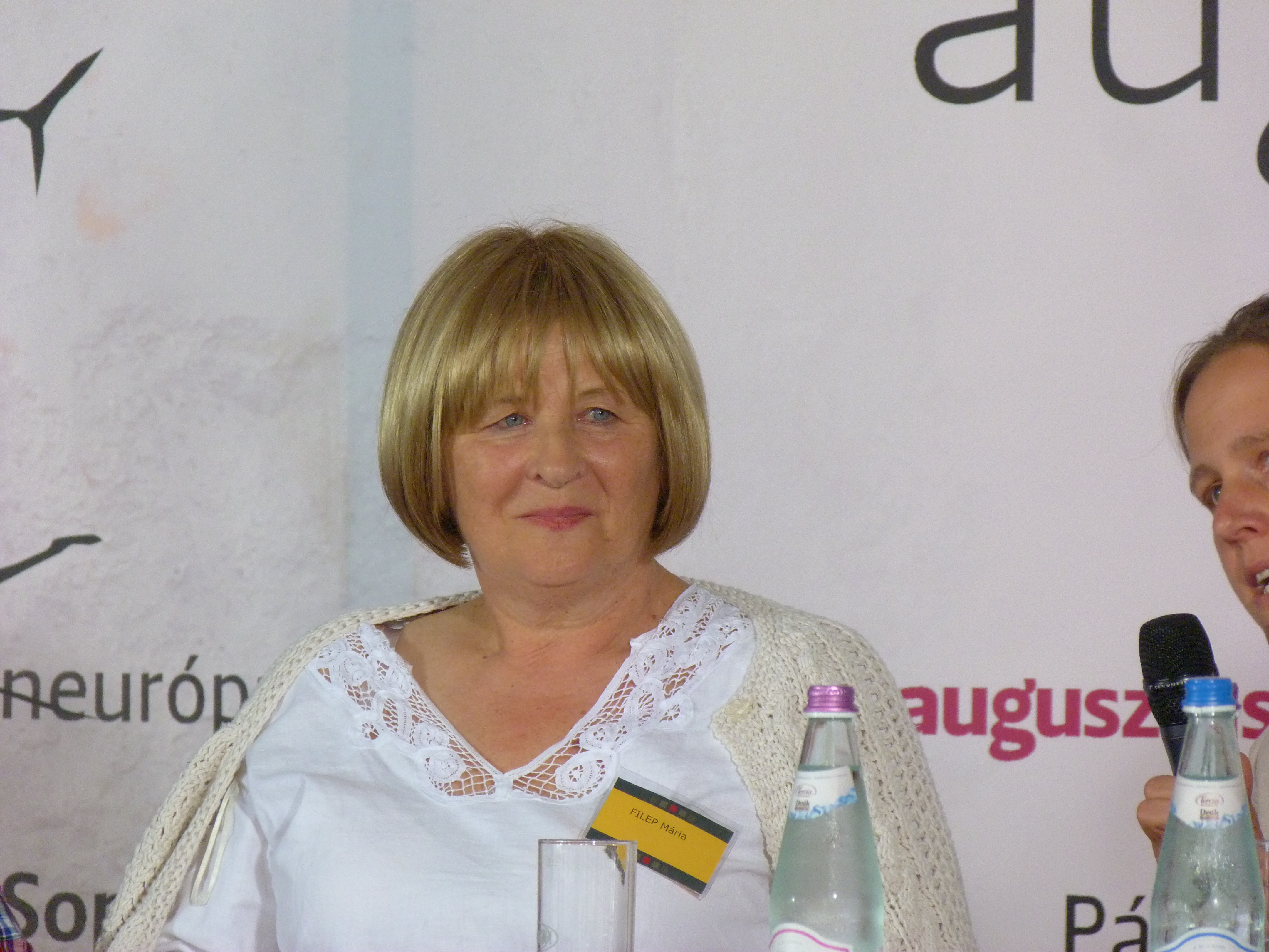 © © Derzsi Elekes Andor, Budapest 2014, You are authorised to use these photos and vids under Creative Commons – even for commercial, for profit purposes. Photos must be attributed to Derzsi Elekes Andor. All of the photos and vids in the Metapolisz DVD line are under Creative Commons and can be used even for commercial – for profit – purposes. Recommended Citation Derzsi Elekes Andor: Metapolisz DVD line